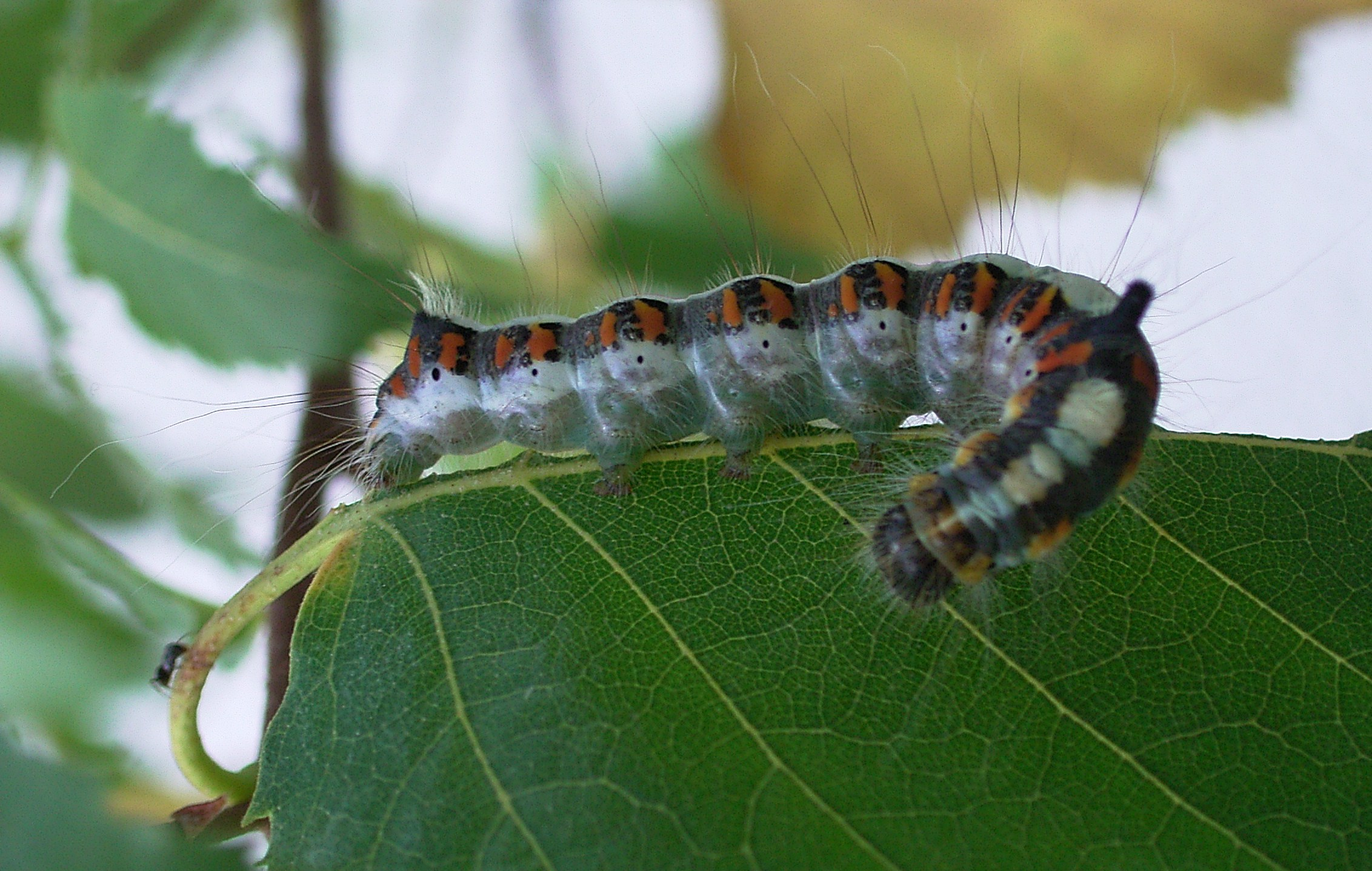 A Grey Dagger Acronicta psi raupe(?)